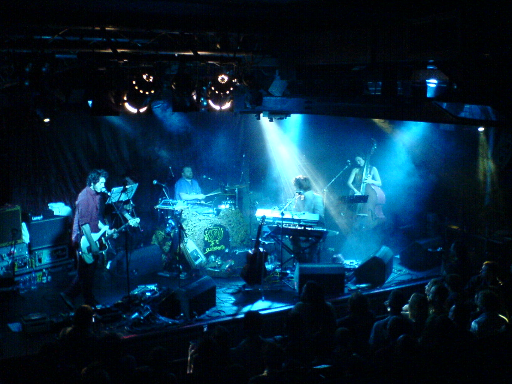 Taken at a Guillemots gig at Edinburgh Liquid Rooms on 26th May 2006